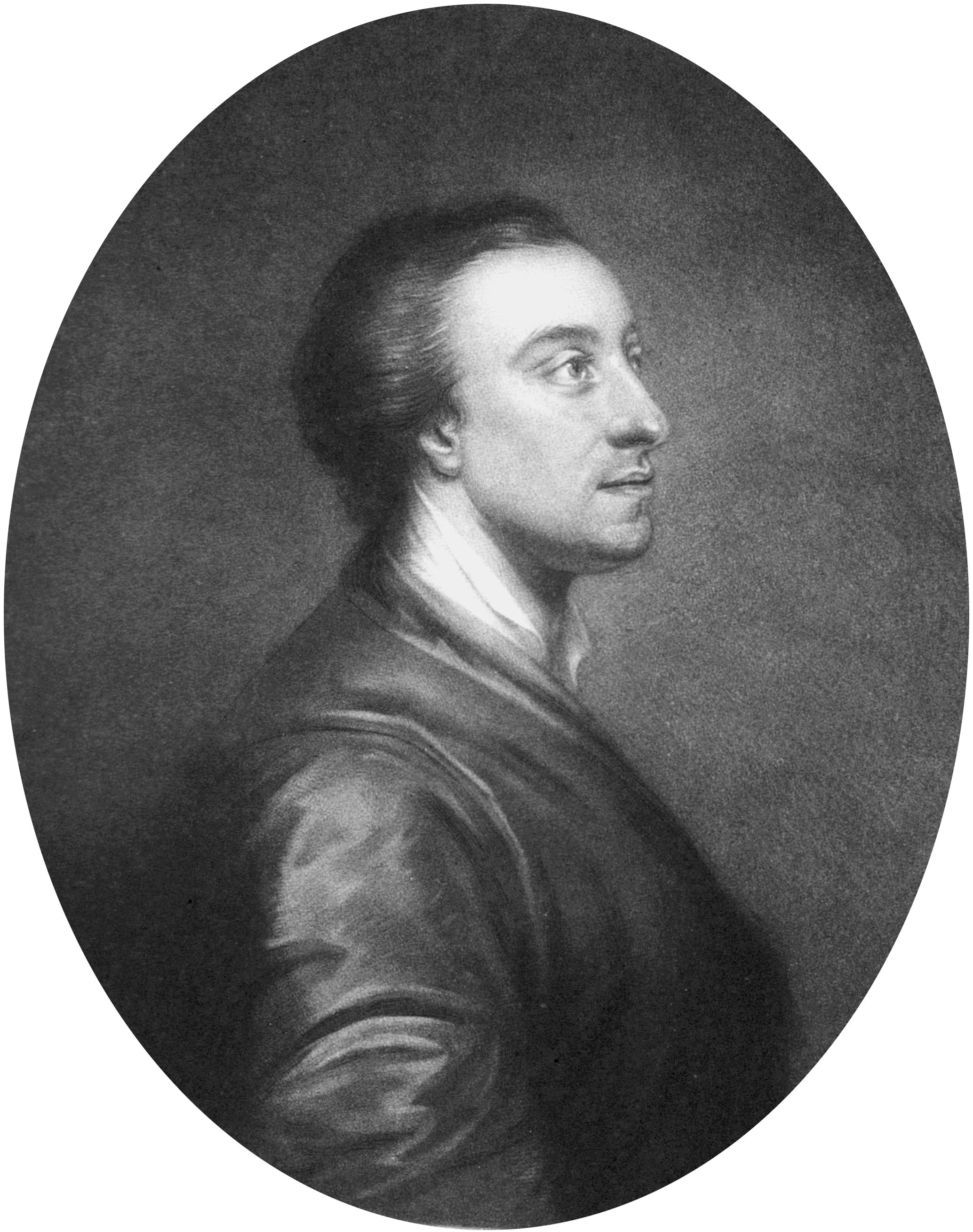 Mark Akenside (9 November 1721 – 23 June 1770), The poems of Mark Akenside, M.D. (London : Printed by W. Bowyer and J. Nichols: and sold by J. Dodsley ... , 1772)